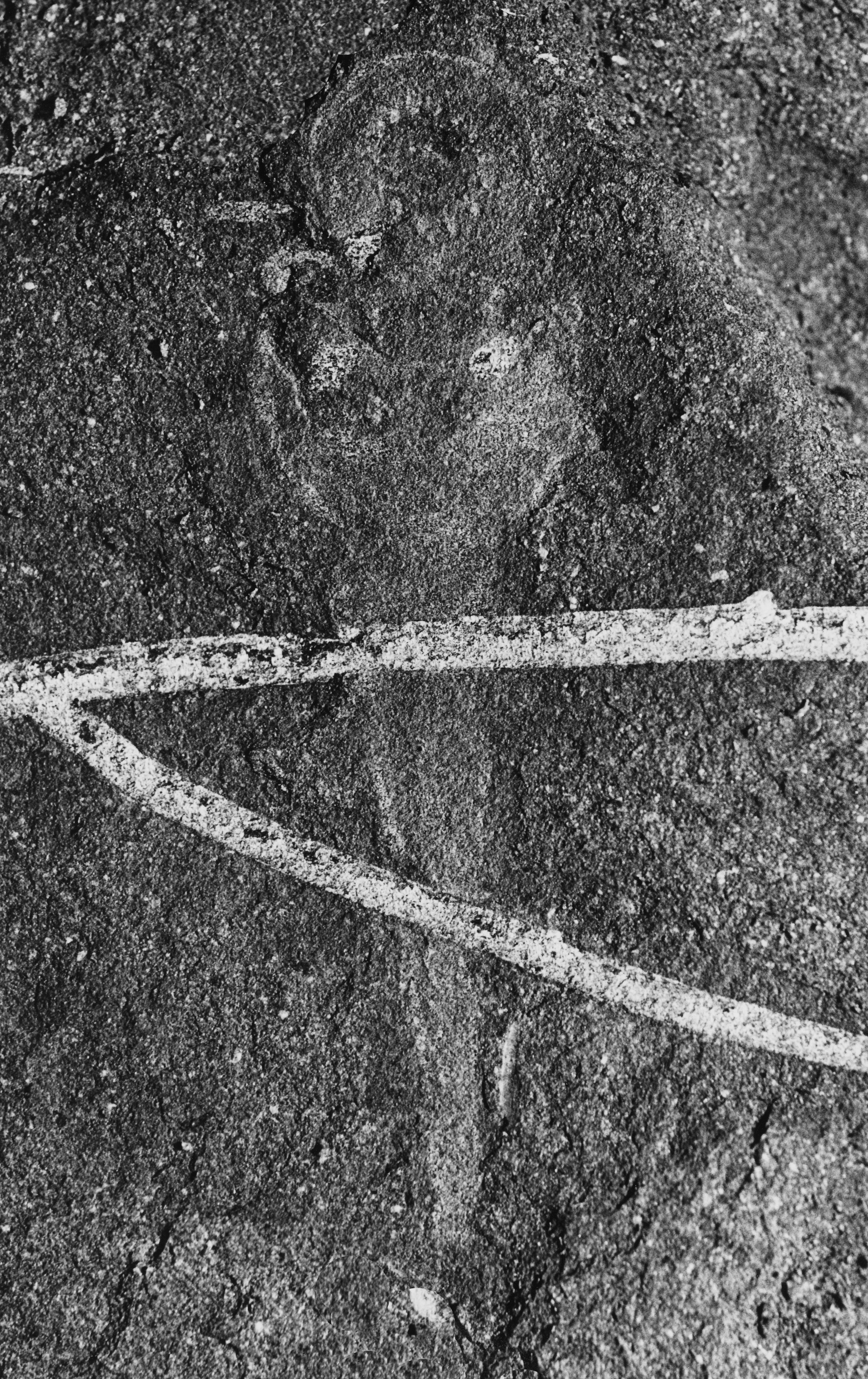 Slab and counterslab of Priscomyzon riniensis from Waterloo Farm near Grahamstown